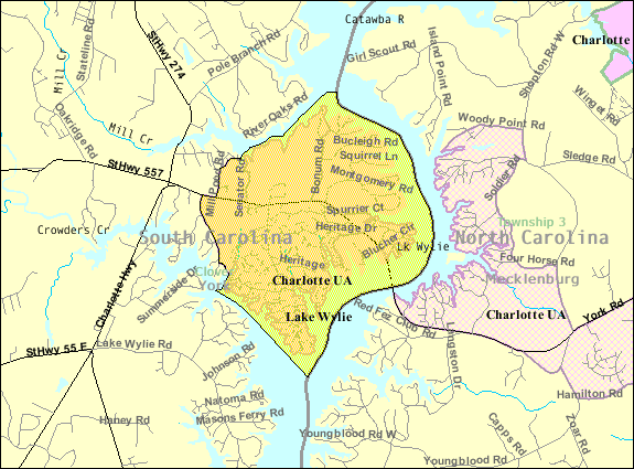 Official U.S. Census